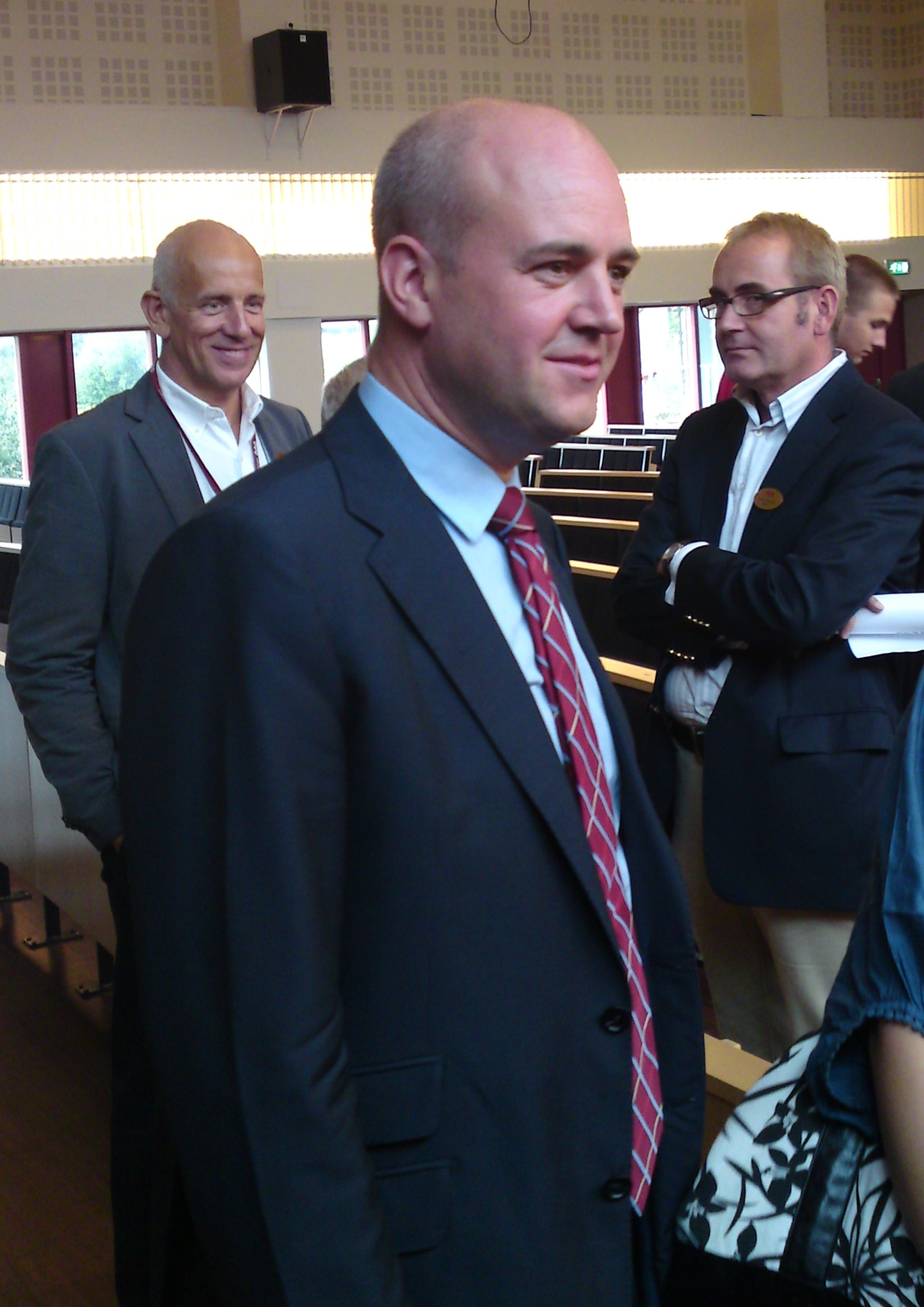 Sweden's prime minister Fredrik Reinfeldt visiting his former school (secondary), Åva gymnasium, Täby in September 2009.